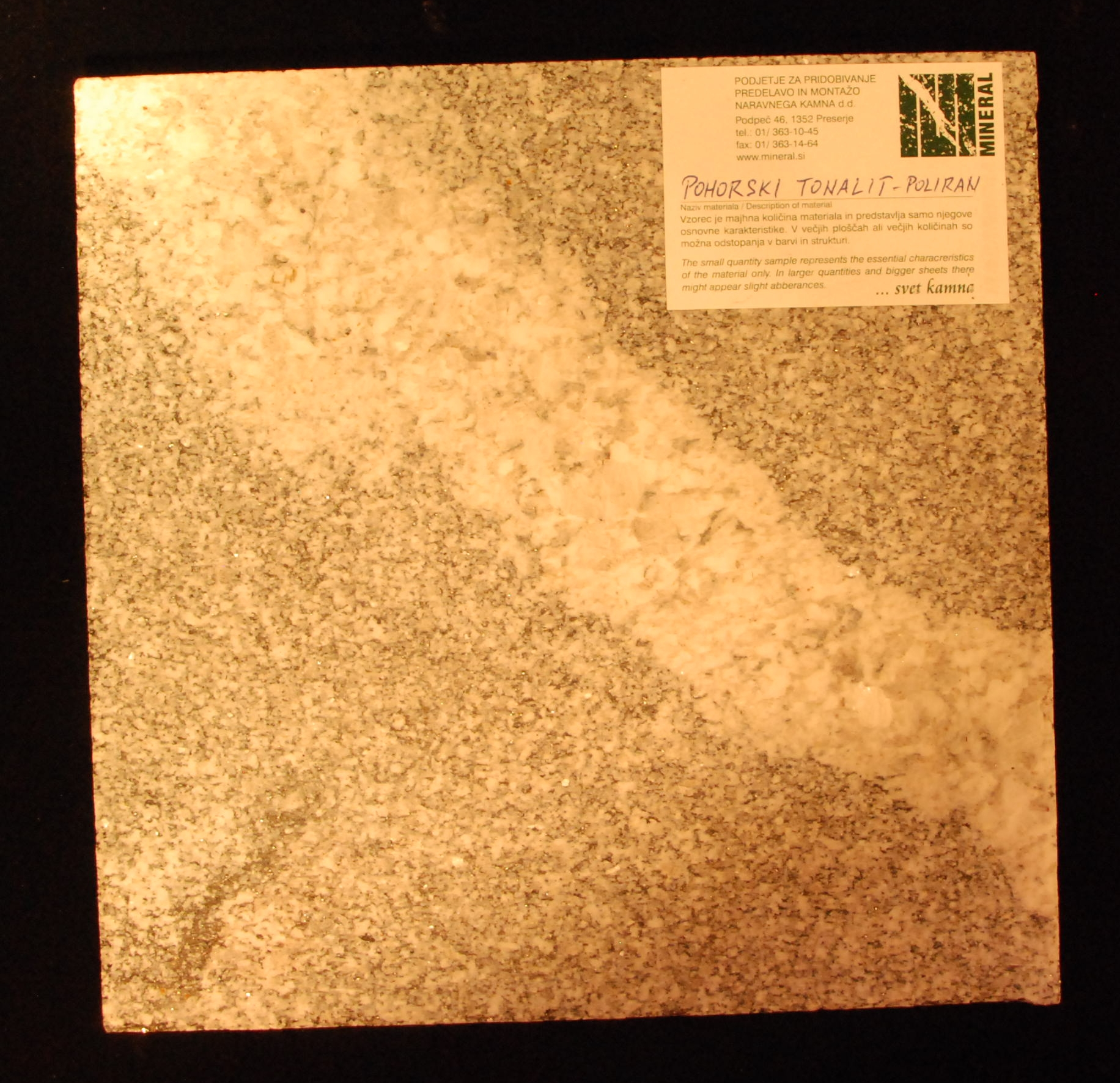 Pohorje tonalite (granodiorite). Natural History Museum of Slovenia.